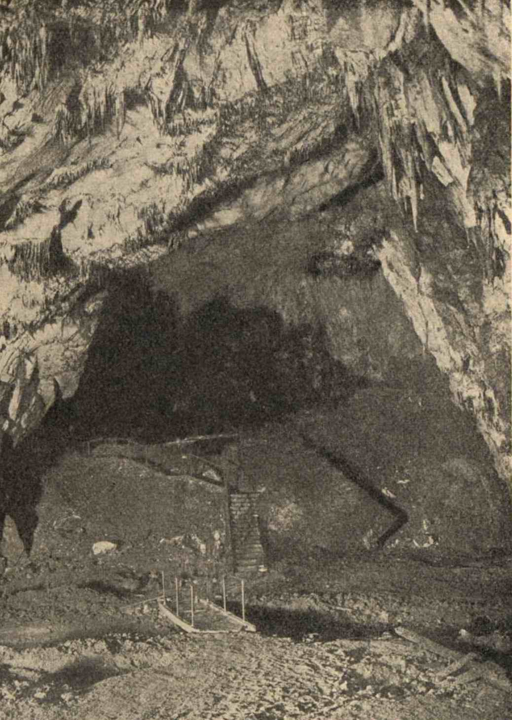 Baradla Cave, Hungary.